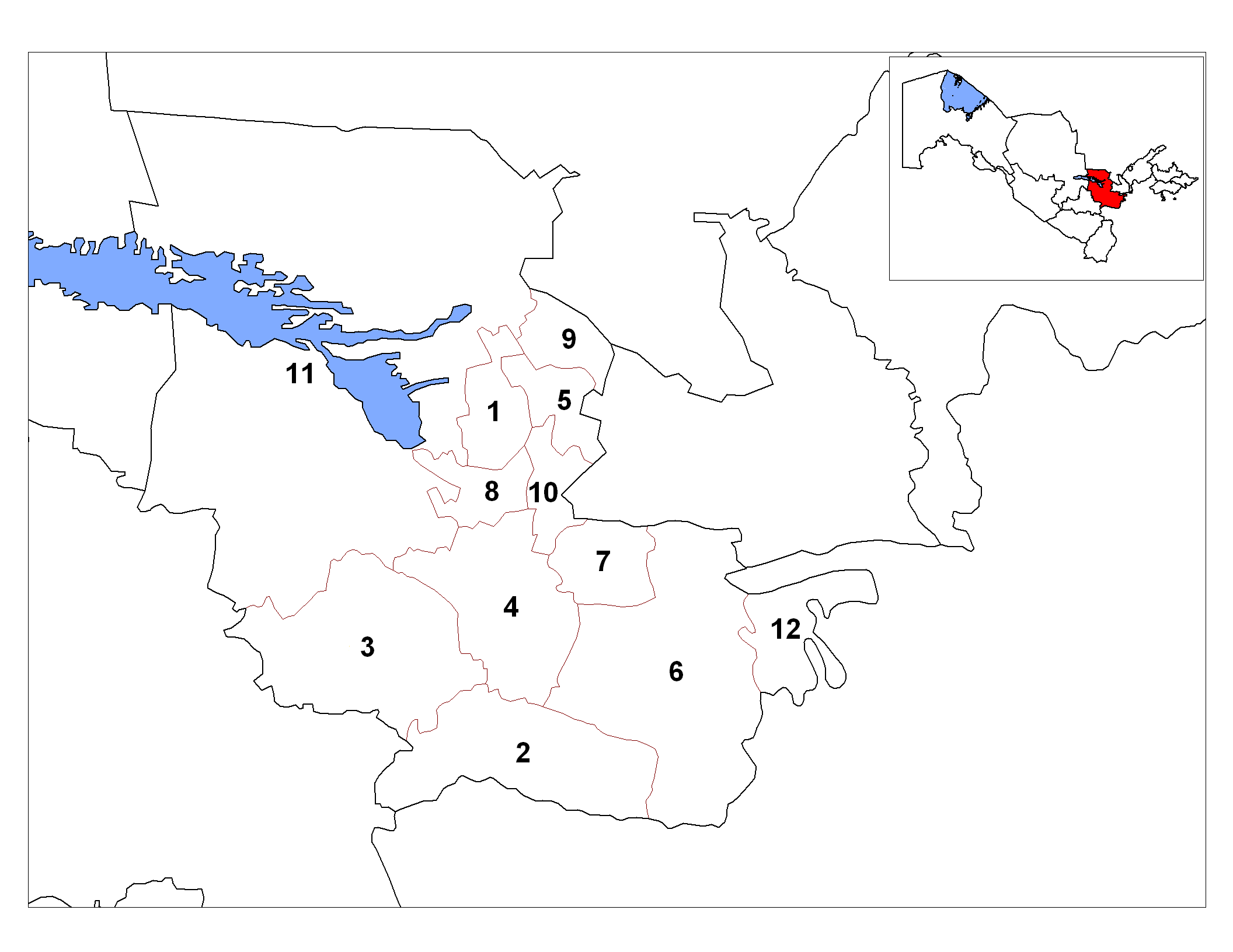 Map of districts of Jizzakh Province in Uzbekistan.